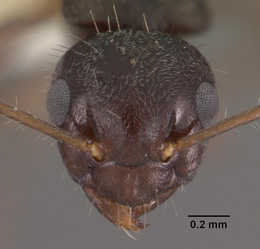 Head view of ant Teratomyrmex greavesi specimen casent0102382.